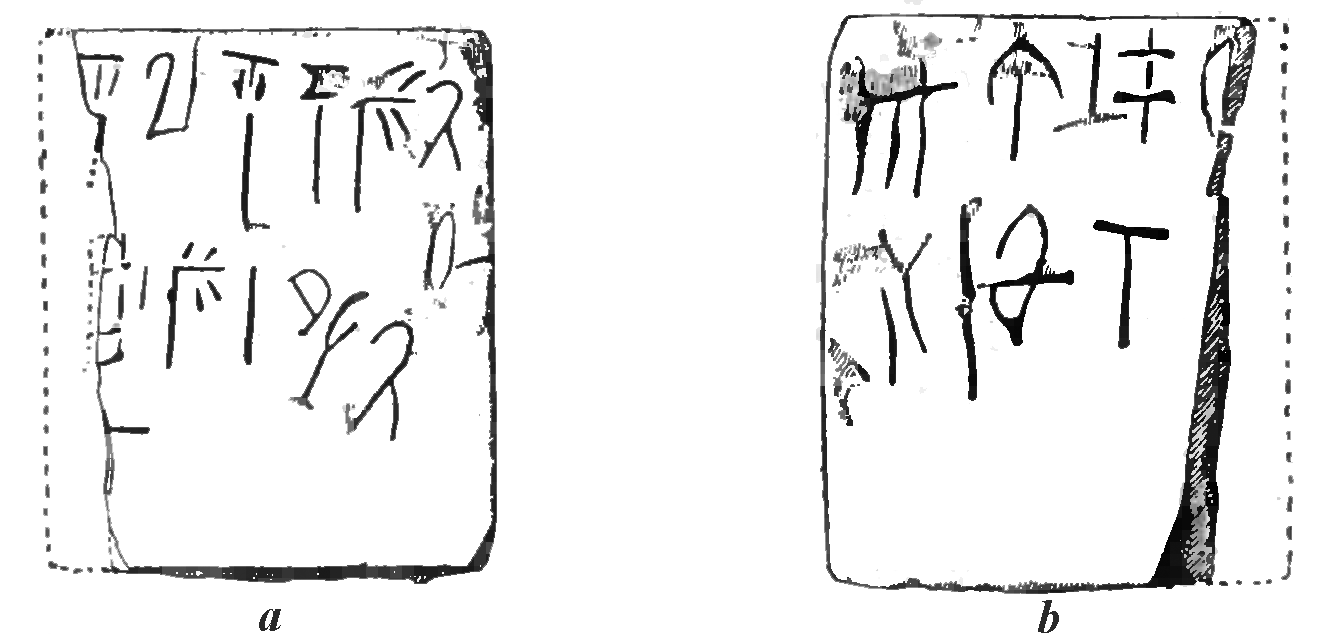 Tablet of Linear A (Ph-1), found with Phaistos disk. From A. Evans "The palace of Minos", 1921 (PD-license).